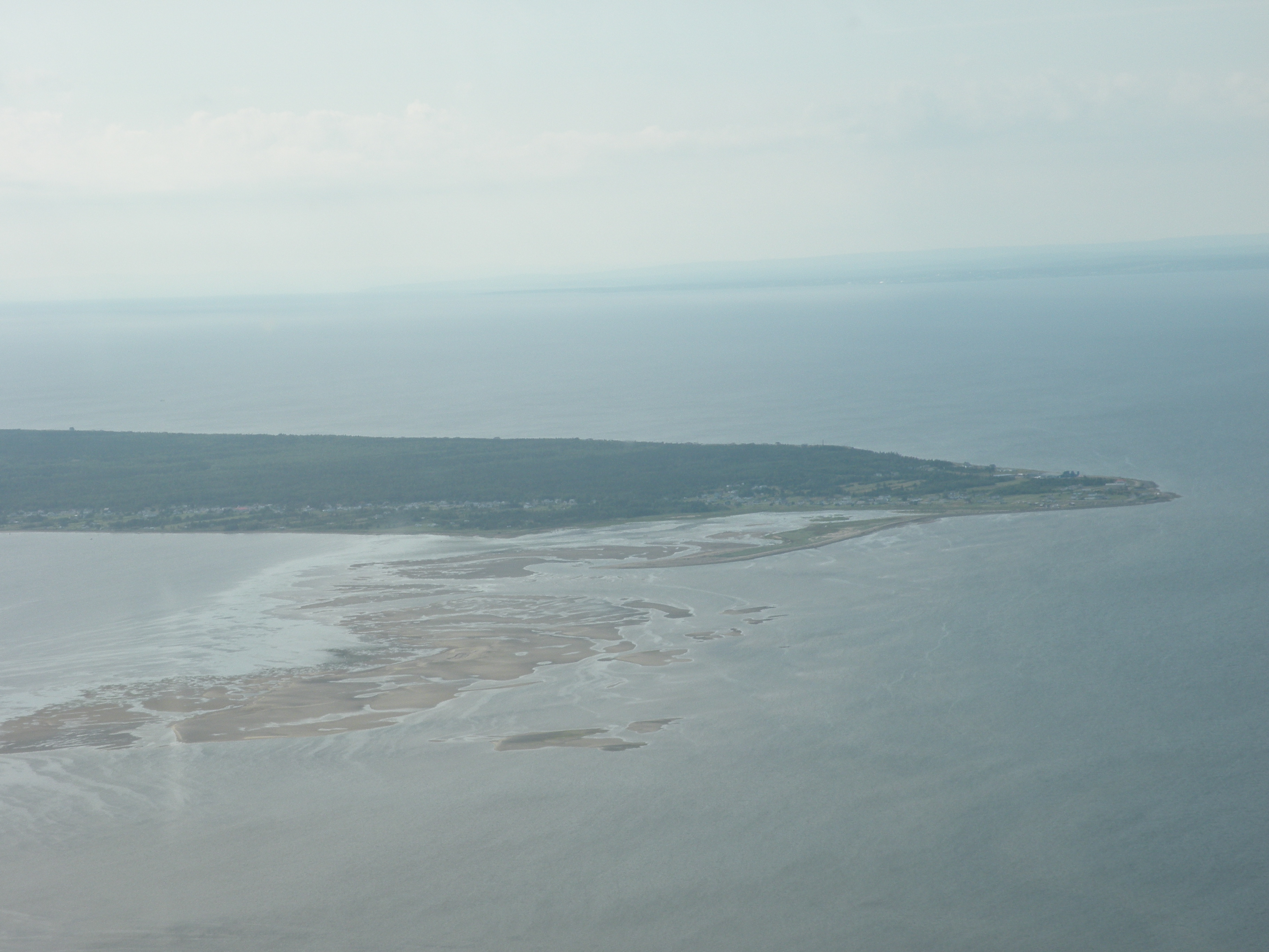 Aerial view of Maisonnette, New Brunswick.